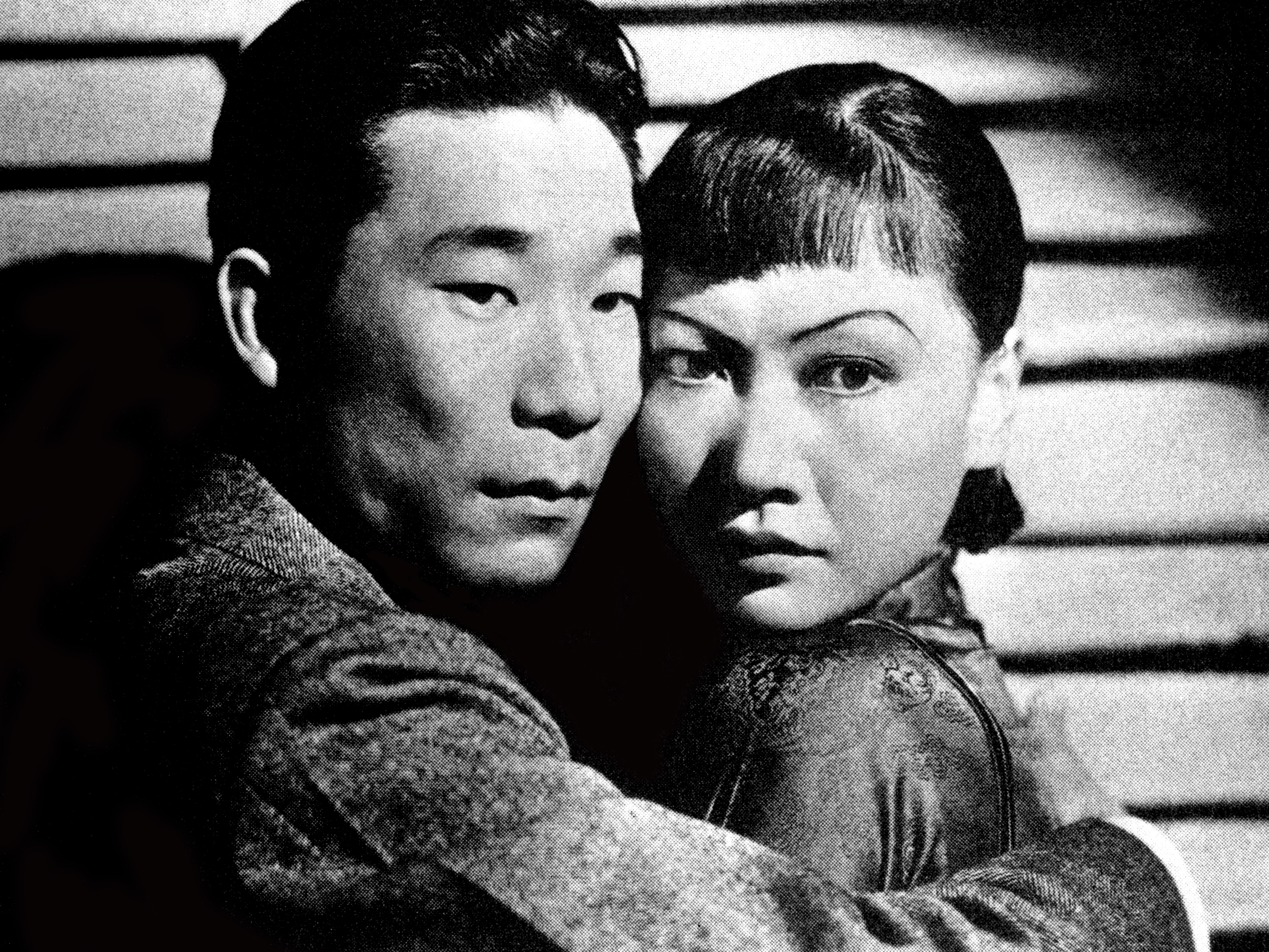 Reproduction of a publicity photo of Philip Ahn and Anna May Wong for the 1937 film Daughter of Shanghai.